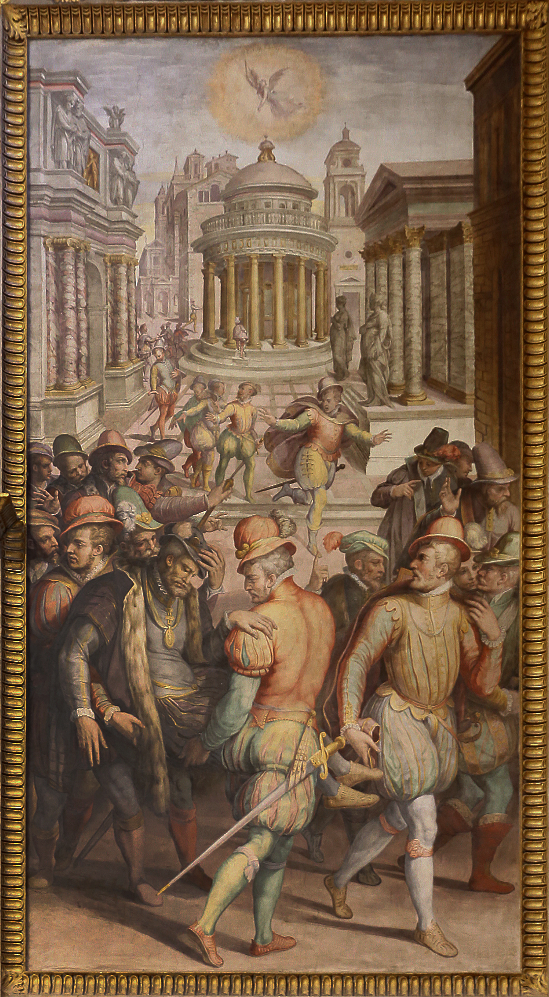 Sala Regia - Frescos by Giorgio Vasari and workshop